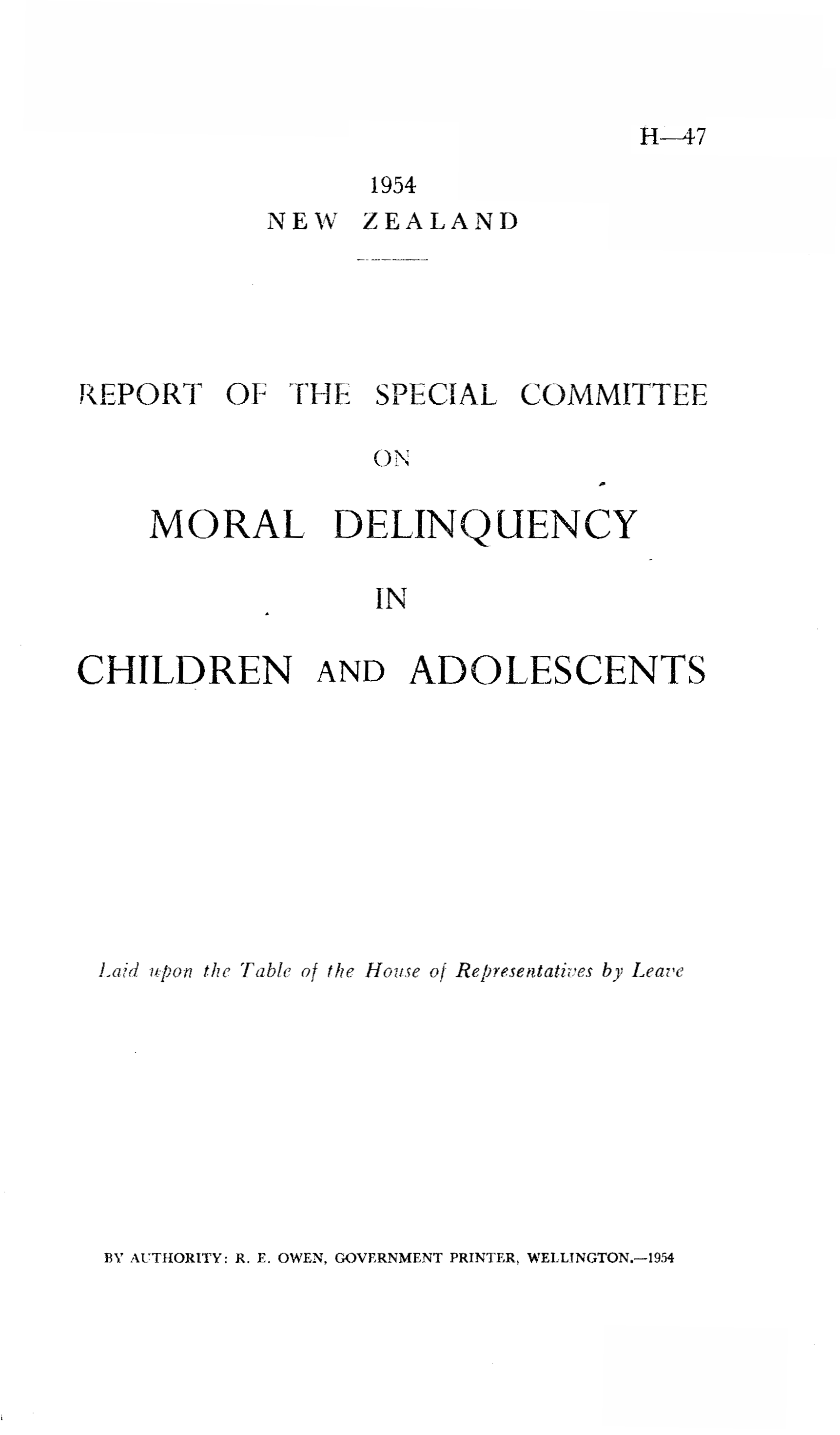 Cover page of the Mazengarb Report of 1954, chaired by Oswald Mazengarb. Scanned image downloaded from the book gallery at The text of the Mazengarb Report at ibiblio